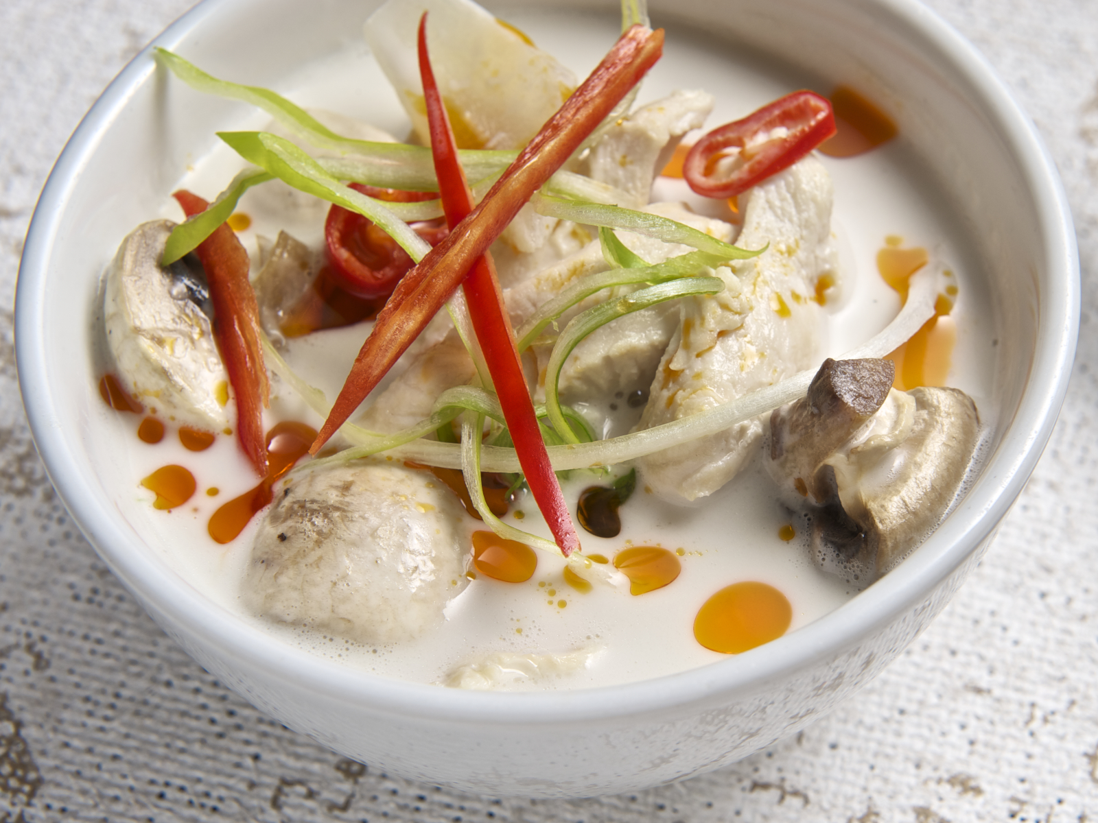 Tom kha kai